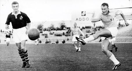 Björn Anlert (AIK) and Ingvar Svahn (Malmö FF)